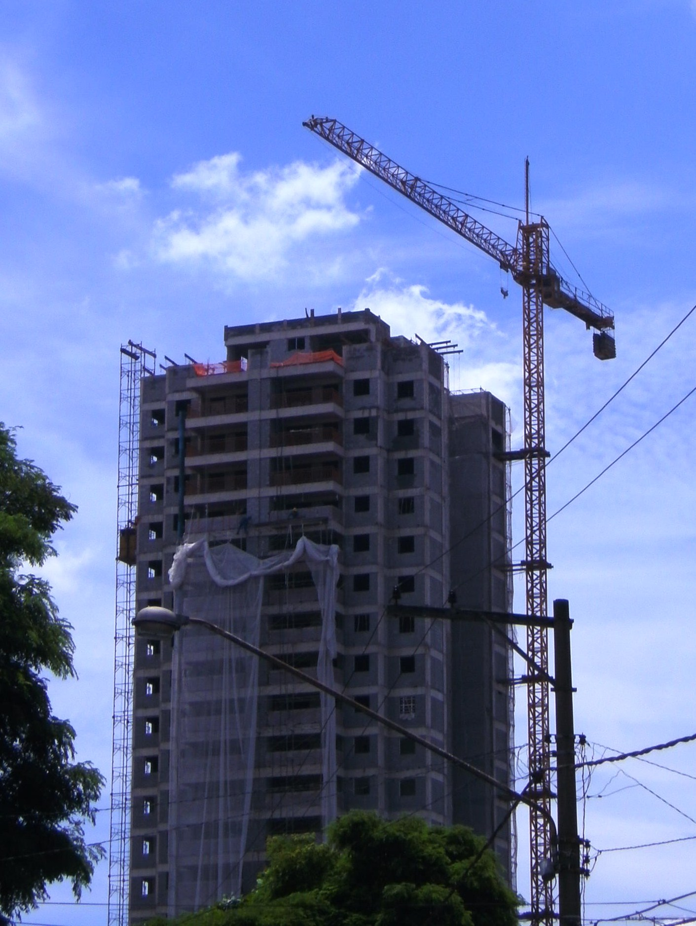 Crane from Germany